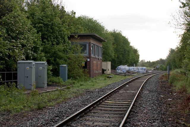 Lightmoor Junction The left fork here has been taken up. Further north, along its line, is the Horsehay Steam Trust. The right fork leads to Madeley Junction, a real junction this time, on the Wolverhampton to Shrewsbury line. Only goods trains; long lines of coal trucks heading to & from the Ironbridge Gorge Power Station; pass along this line now.